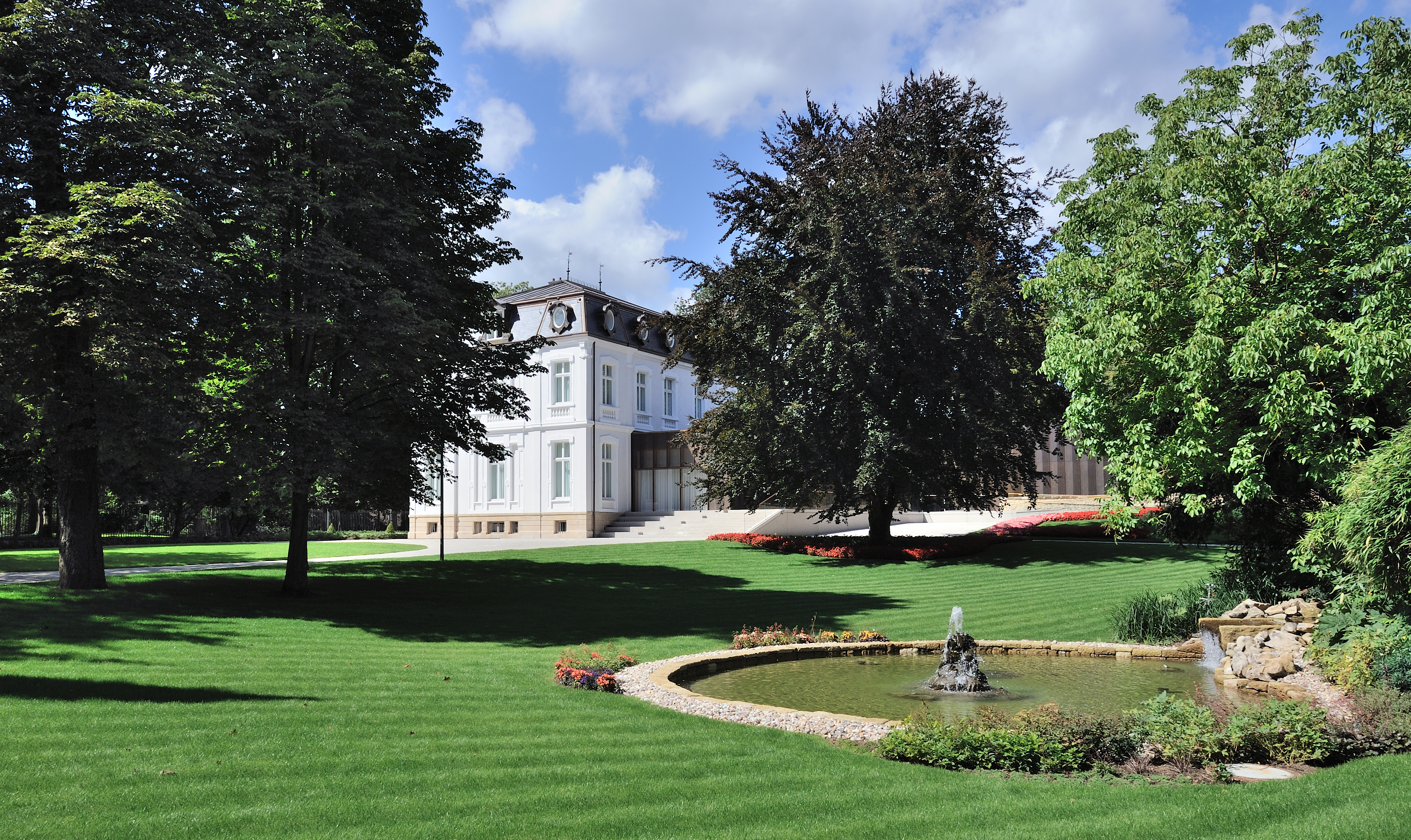 Luxembourg City: Villa Vauban, art museum. The building was constructed during the years 1871-1873 at the place of the former Fort Vauban of the fortress.